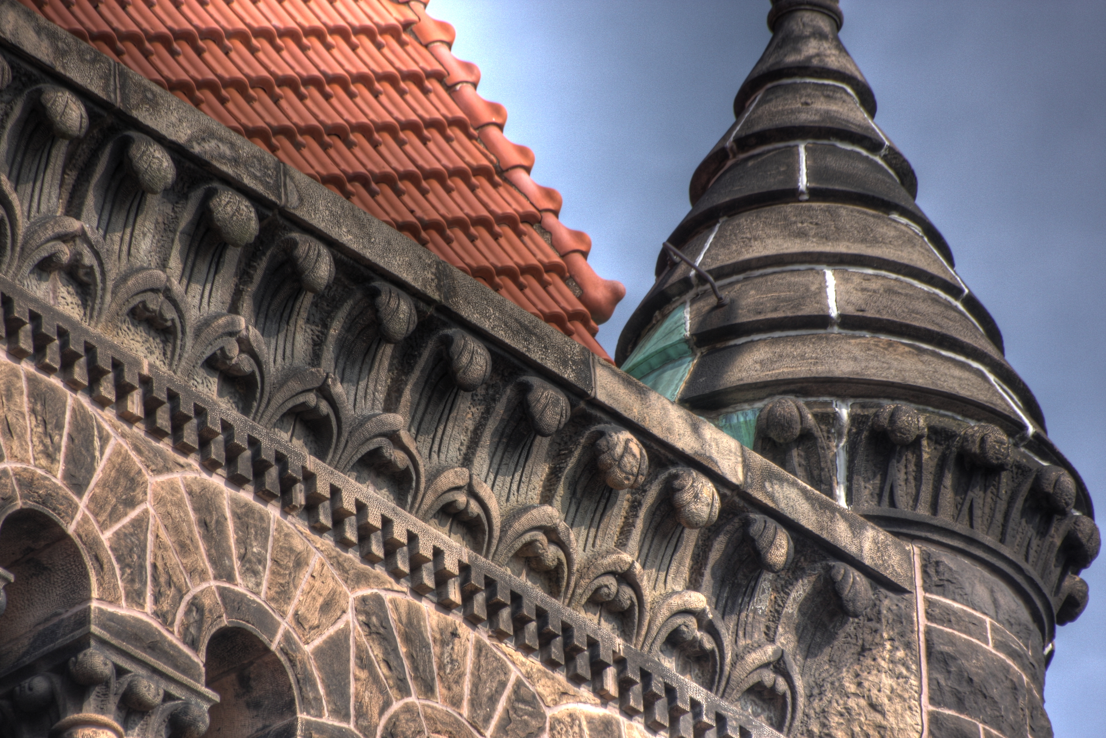 Detail of Altgeld Hall at the University of Illinois at Urbana Champaign